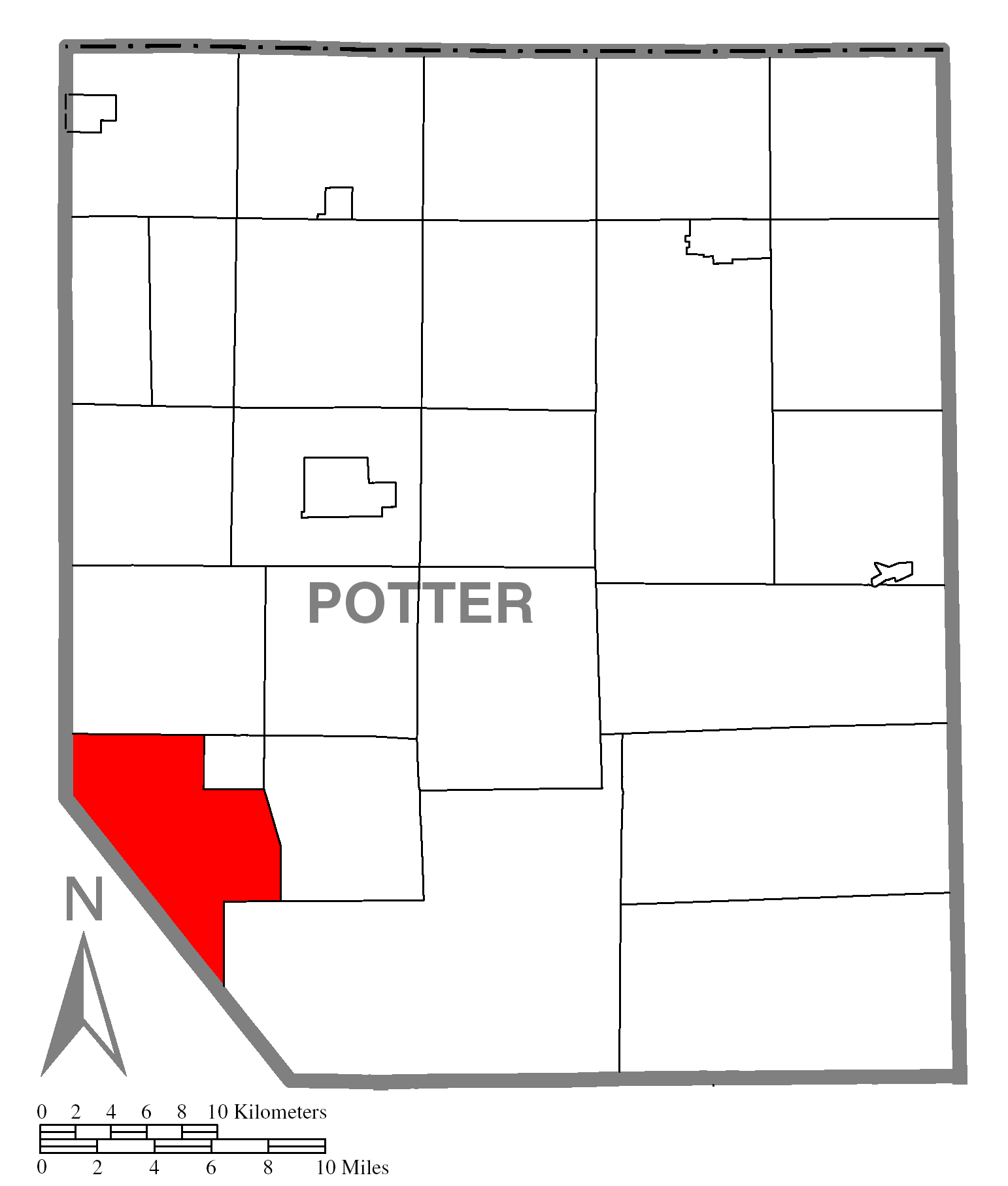 A map of Potter County showing Portage Township, Pennsylvania (alternate) highlighted on the map.